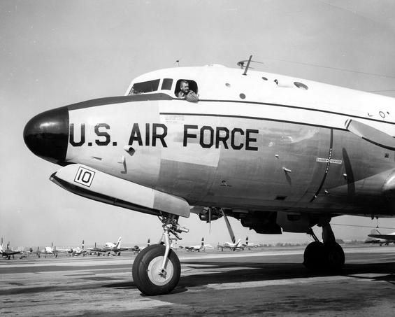 Original caption: ""The Sacred Cow", the most historic aircraft then in commission, made its final flight at 11:10 A.M., Tuesday, October 17th, before going into retirement and enshrinement. Major General Brooke Allen, Commander of Headquarters Command, who was the first American bomber air pilot to go into combat in World War II, landed the Air Force C-54 that flew both President Franklin D. Roosevelt and President Harry S. Truman during World War II, at Andrews Air Force Base after making an eight mile flight from Bolling. "The Sacred Cow", nicknamed by Fleet Admiral William Leahy, flew more than 1,500,000 miles, equivalent to 70 times around the world, was turned over to the National Air Museum. The military ceremony transferring "The Sacred Cow" that has logged 12,135 hours and 25 minutes took place at Andrews Air Force Base, 11 A.M., Monday, December 4, 1961. General Allen, the pilot of the "Cow"'s last flight, was able to take off the first B-17 bomber when the Japanese struck Pearl Harbor, December 7th, 1941, from Hickam Air Force Base."